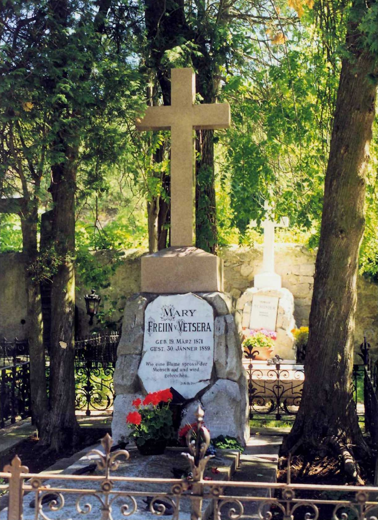 Heiligenkreuz - grave of archduke Rudolf's lover: Mary von Vetsera